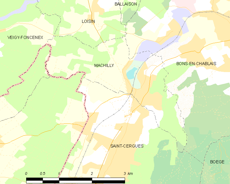 Map of French municipality Machilly